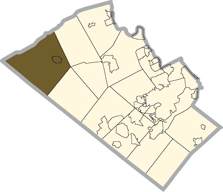 Lynn Township shaded on the Lehigh county map.